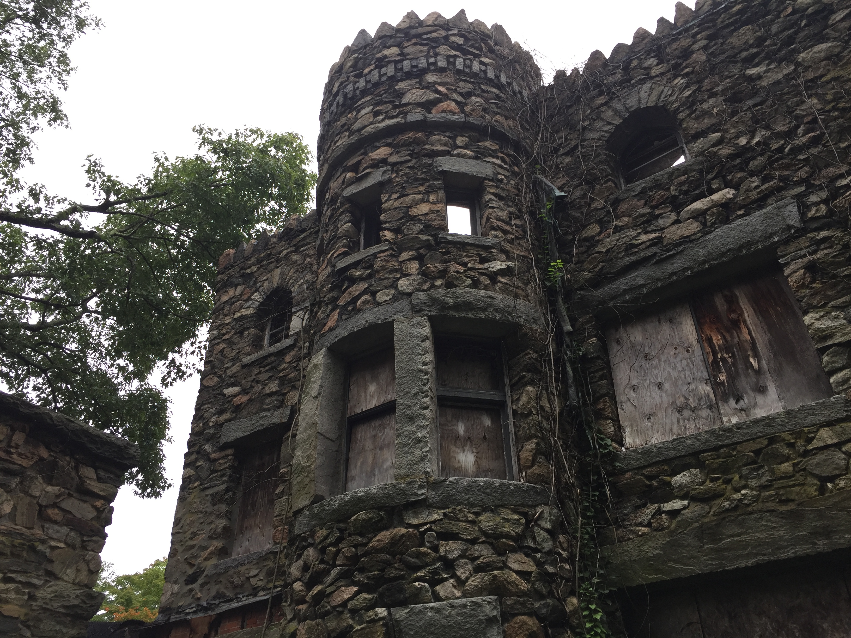 Hearthstone Castle in Danbury, Connecticut was built between 1895 and 1899. It was listed on the National Register of Historic Places in 1987. It has also been known as Parks' Castle and as The Castle. The property includes four contributing buildings and three other contributing structures.[1] Today, the castle is owned by the City of Danbury and is located in Tarrywile Park. Hearthstone Castle is slated to be demolished due to safety concerns.